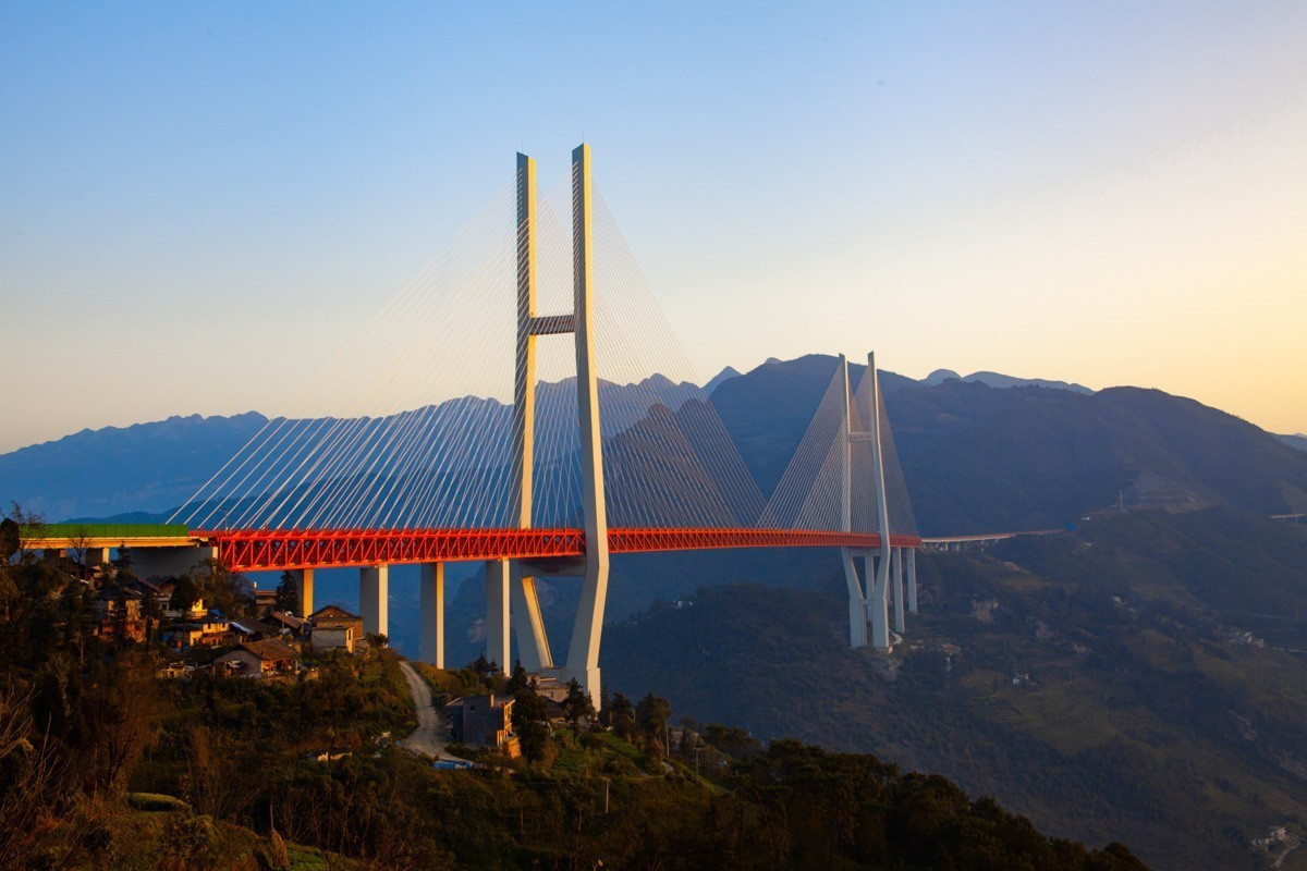 Duge Bridge looking east